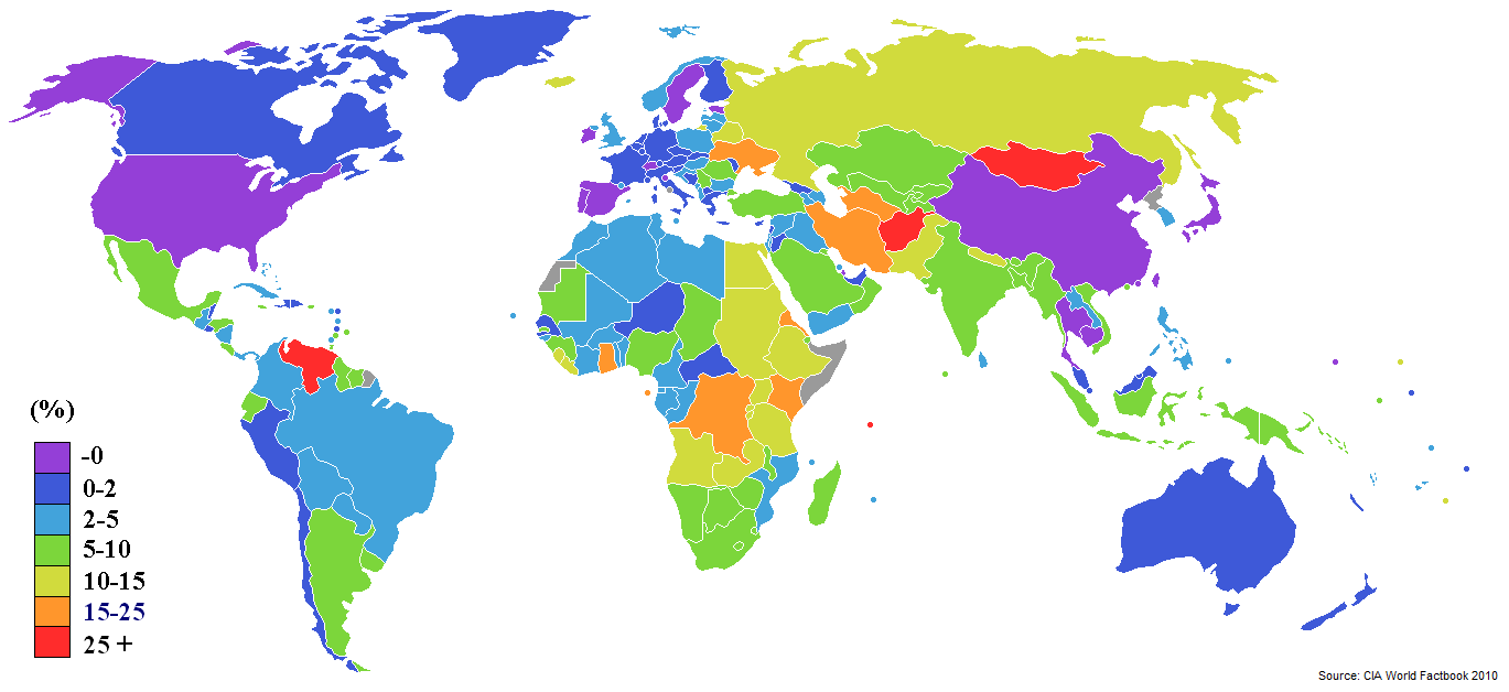 World map showing inflation rate, based on CIA factbook figures. Gray means no data. Updated for 2009 by Mangy Cheshire Cat on 3 February 2010 (originally at File:World Inflation rate 2007.PNG).